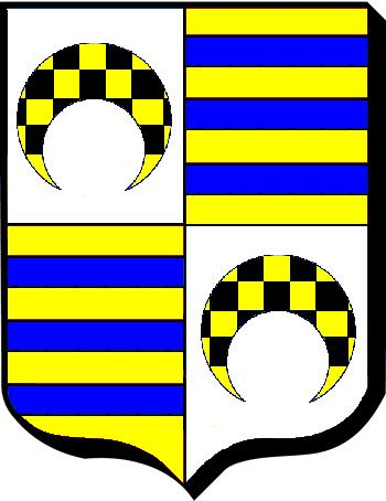 blason de Rodrigue de Villandrado, a spanish mercenary in France during the Hundred Years War ca 1450